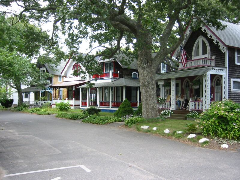 View of the Carpenter Gothic style gingerbread cottages in Oak Bluffs.